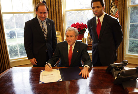 Zach Wamp, George W. Bush & Jesse Jackson